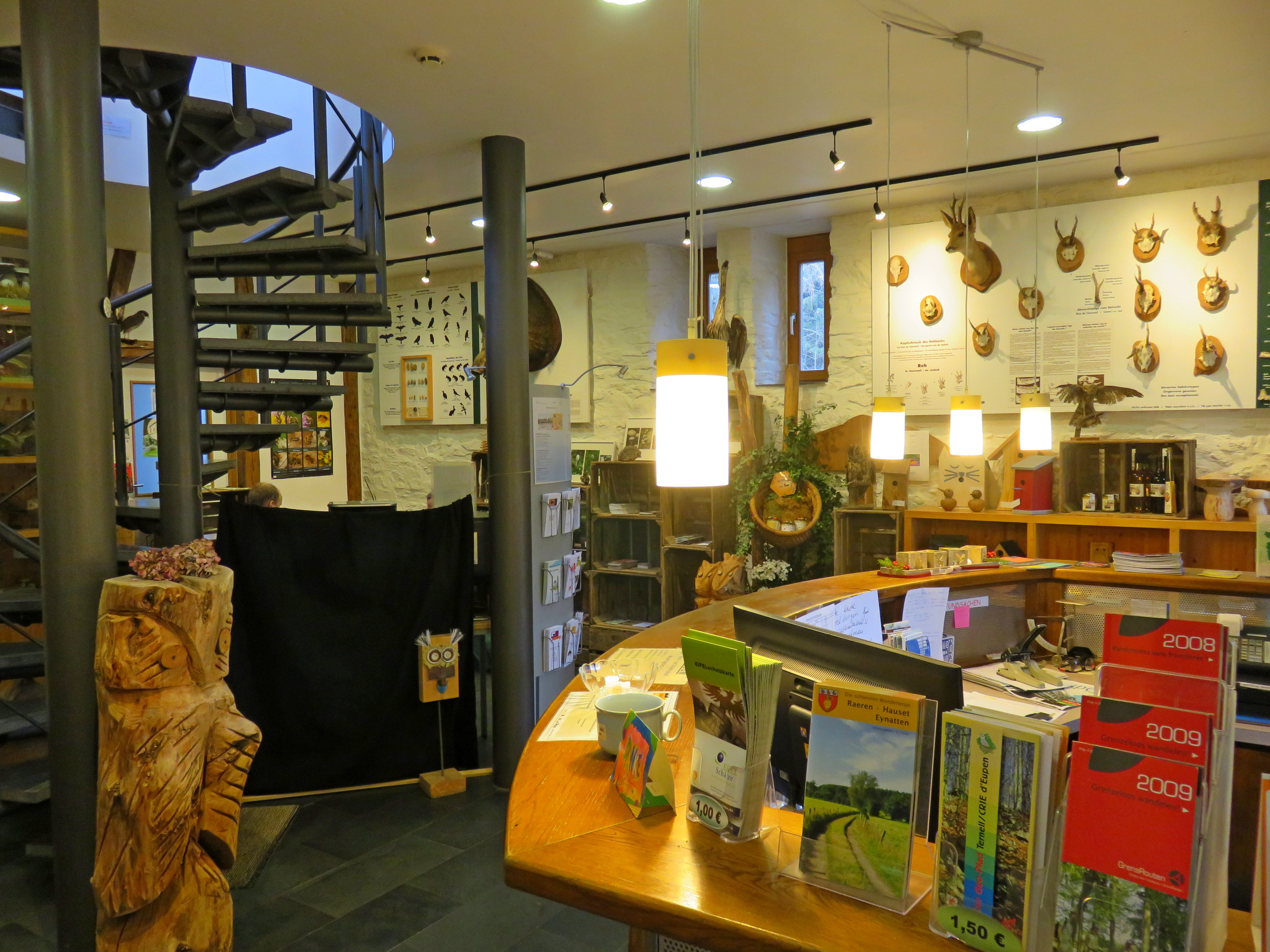 Haus Ternell. On the road from Eupen to Monschau. Interior from informationcentre